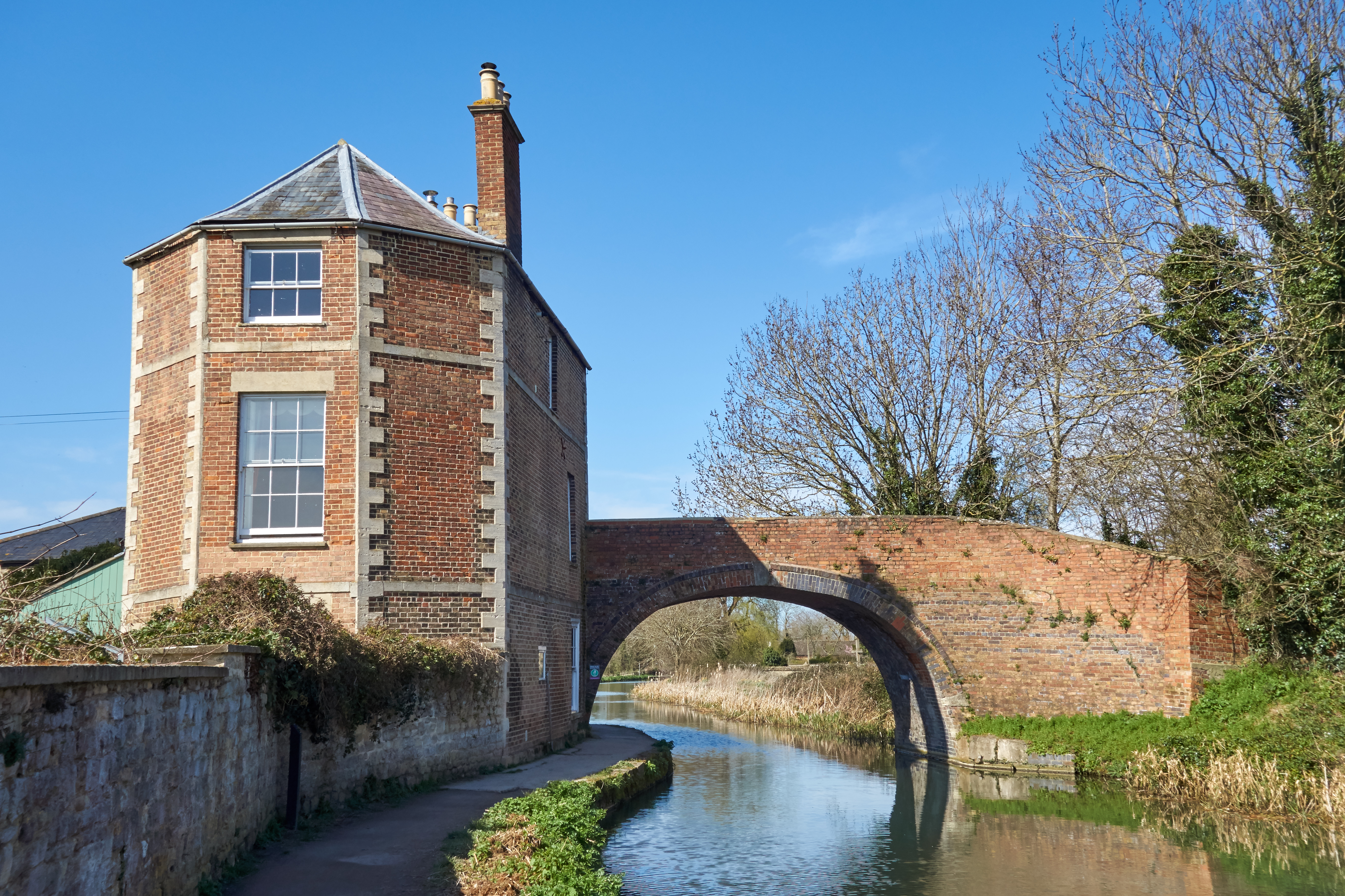 Nutshell Bridge, Stroudwater Canal, March 2020